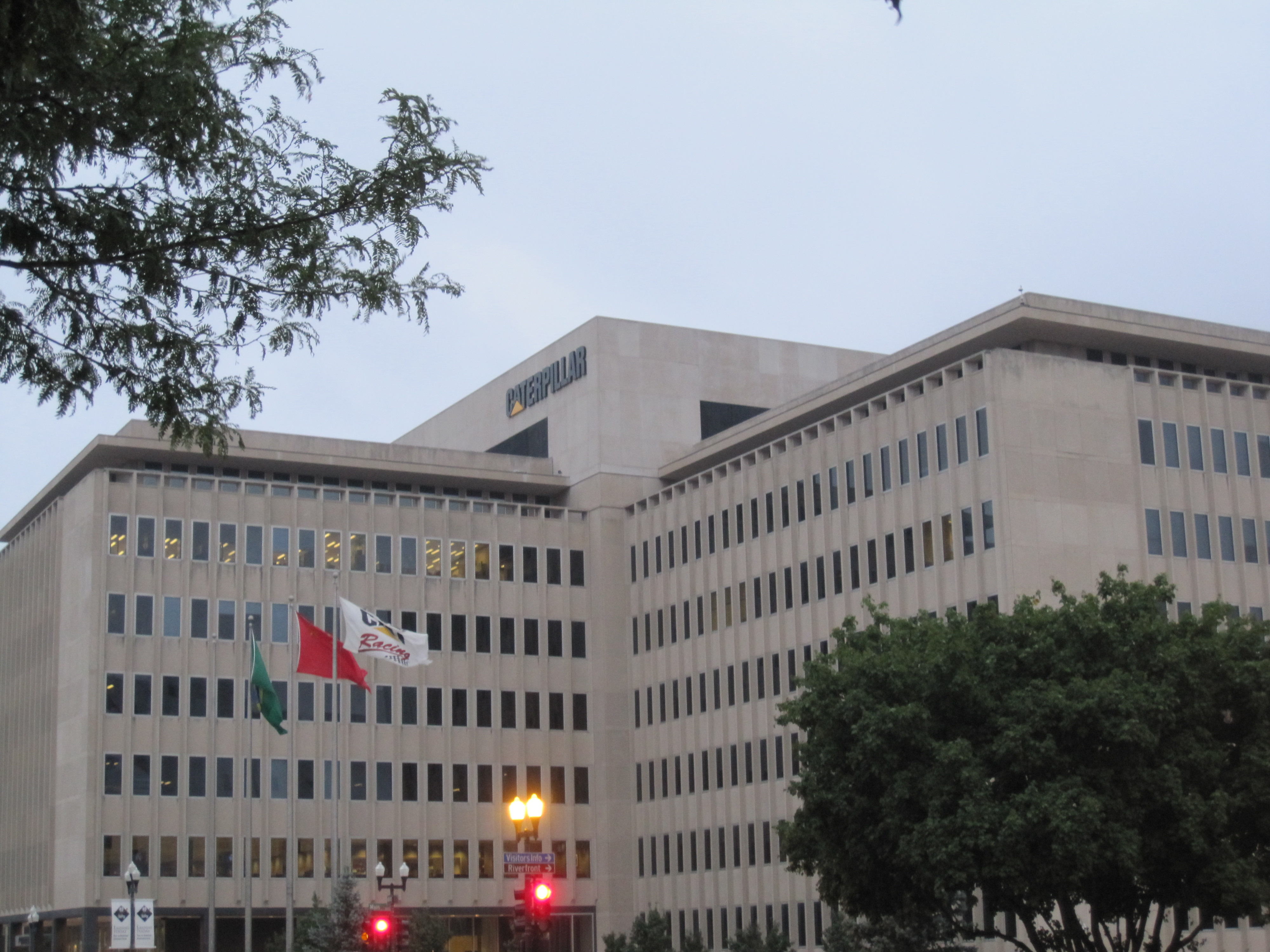 Caterpillar world headquarters (G.O. / building AB), east from corner of Adams Street and Main Street, downtown Peoria, Illinois, USA, August 2009. Flags from front to back (right to left): Caterpillar Racing, People's Republic of China, and Brazil; the fourth flagpole (in line with window frames) has no flag.